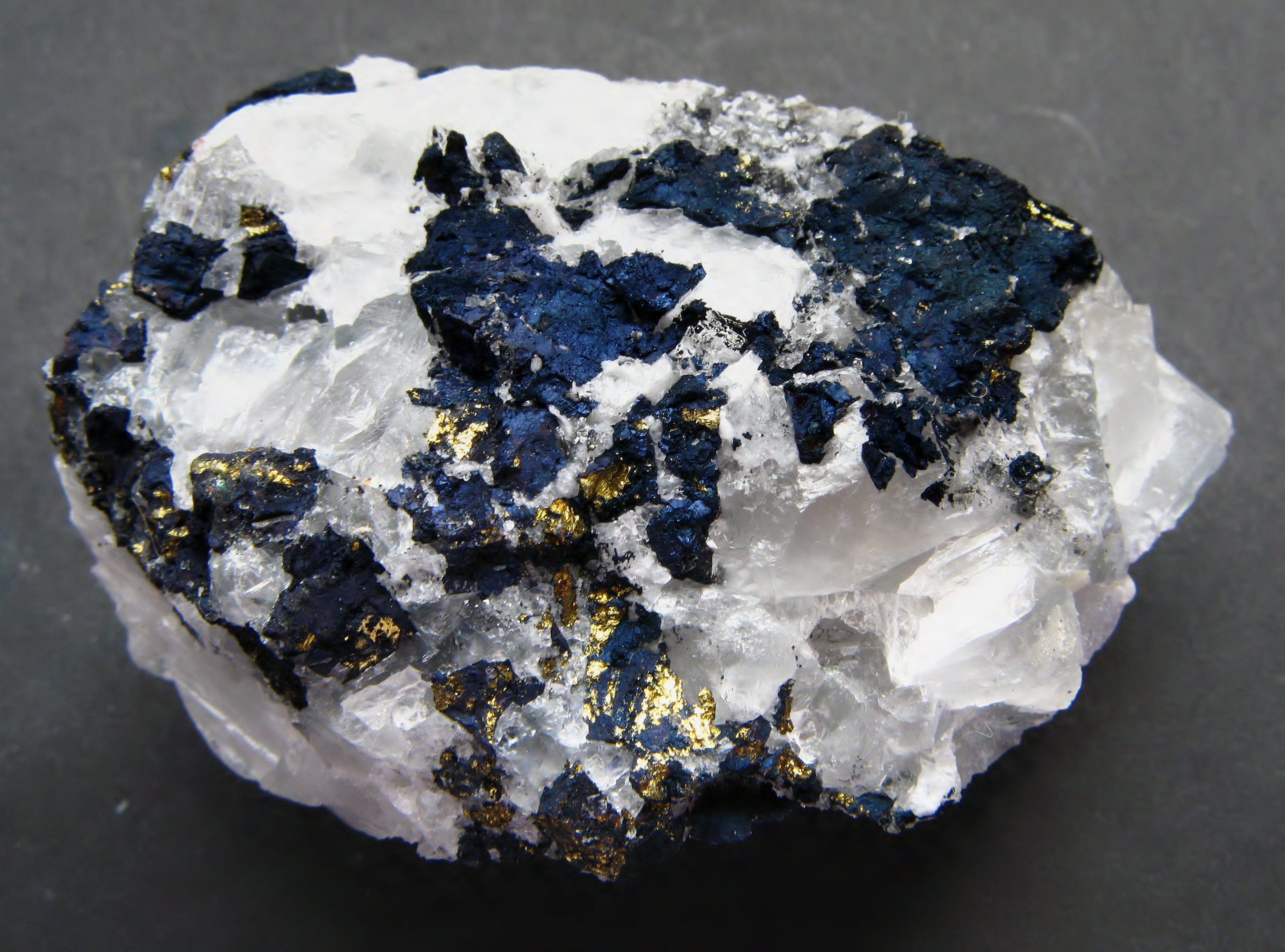 Covellite - Locality: Grube Clara near Oberwolfach (Black Forrest, Germany)